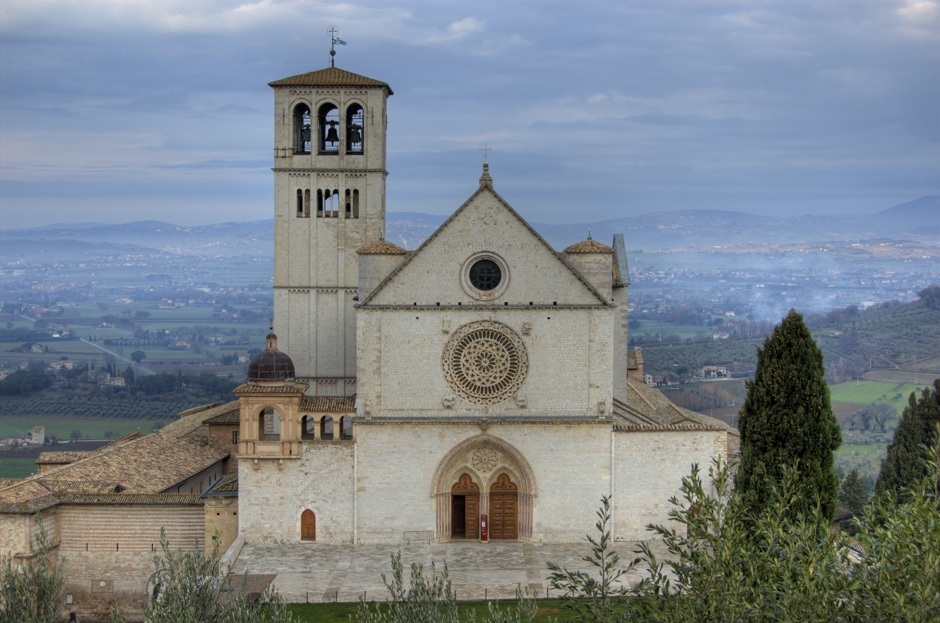 HDR picture of st. Francis church in Assisi